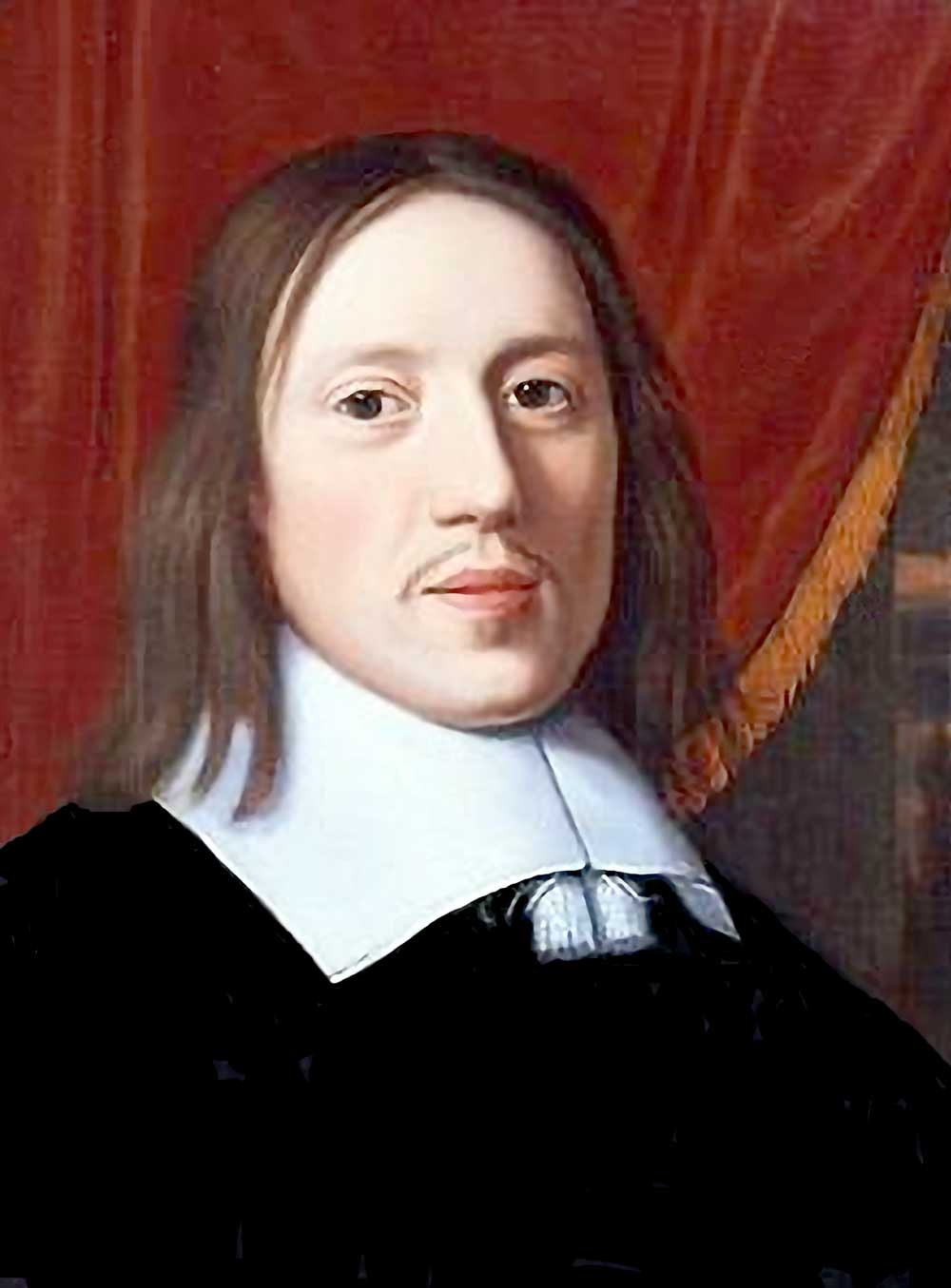 Hendrick Moreelse (1615-1666) Dutch lawyer and mayor of Utrecht